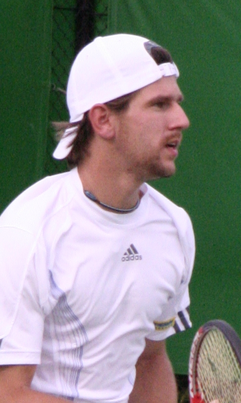 Jurgen Melzer at the 2007 Australian Open.